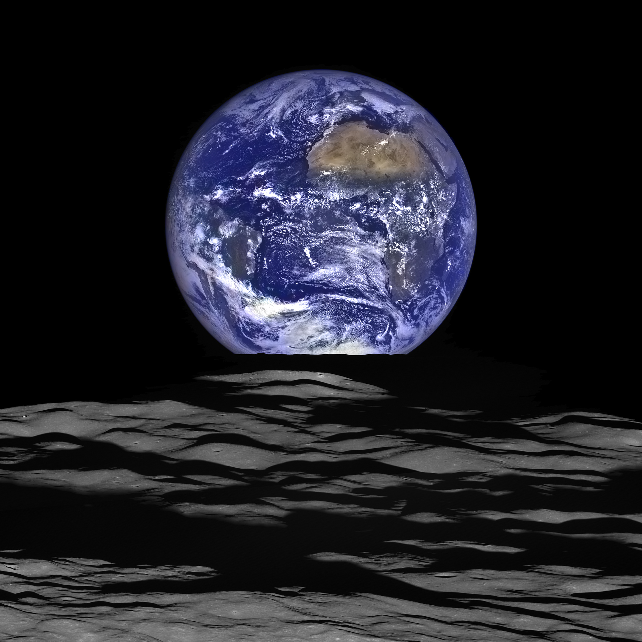 This image was composed from a series of images taken Oct. 12, when LRO was about 83 miles (134 kilometers) above the moon's farside crater Compton. Capturing an image of the Earth and moon with LRO's Lunar Reconnaissance Orbiter Camera (LROC) instrument is a complicated task. First the spacecraft must be rolled to the side (in this case 67 degrees), then the spacecraft slews with the direction of travel to maximize the width of the lunar horizon in LROC's Narrow Angle Camera image. All this takes place while LRO is traveling faster than 3,580 miles per hour (over 1,600 meters per second) relative to the lunar surface below the spacecraft! The high-resolution Narrow Angle Camera (NAC) on LRO takes black-and-white images, while the lower resolution Wide Angle Camera (WAC) takes color images, so you might wonder how we got a high-resolution picture of the Earth in color. Since the spacecraft, Earth, and moon are all in motion, we had to do some special processing to create an image that represents the view of the Earth and moon at one particular time. The final Earth image contains both WAC and NAC information. WAC provides the color, and the NAC provides high-resolution detail.